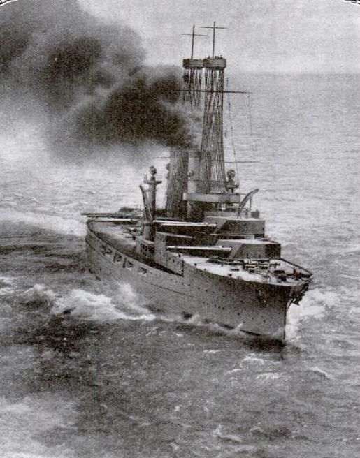 USS Delaware (BB-28) under way circa 1914